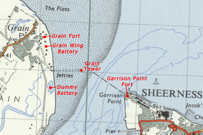 Map of the area of Grain Fort, Grain Tower and Garrison Point Fort. Edited extract from Ordnance Survey One-inch, Seventh Series, 1952-1961